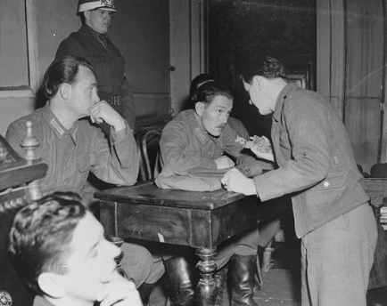 Defendant Heinrich Andergassen confers with the interpreter for the defense during his trial as an accused war criminal.